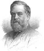 Charles Wyville Thompson